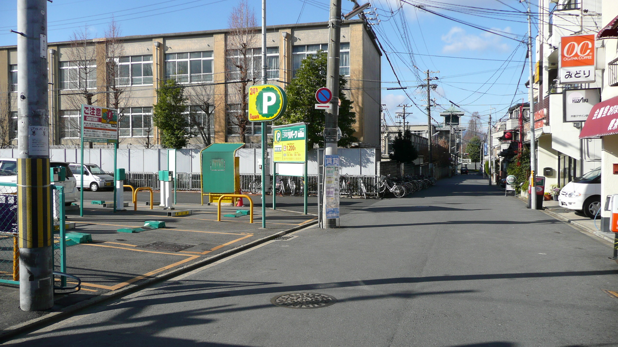 Keihan Electric Railway,Keihan Main Line,Fukakusa Station west. / 京阪線深草駅西口駅前風景